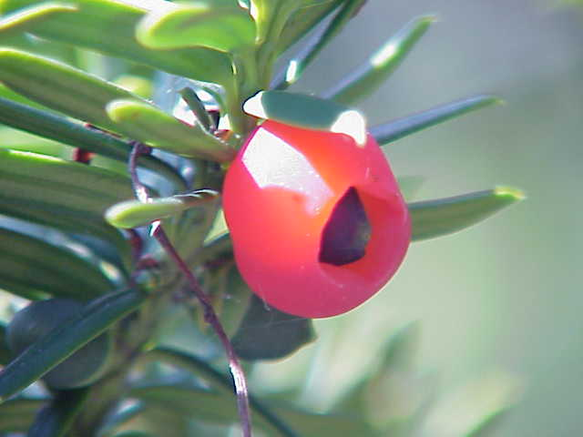 Species: Taxus cuspidata Family: Taxaceae Image No. 2